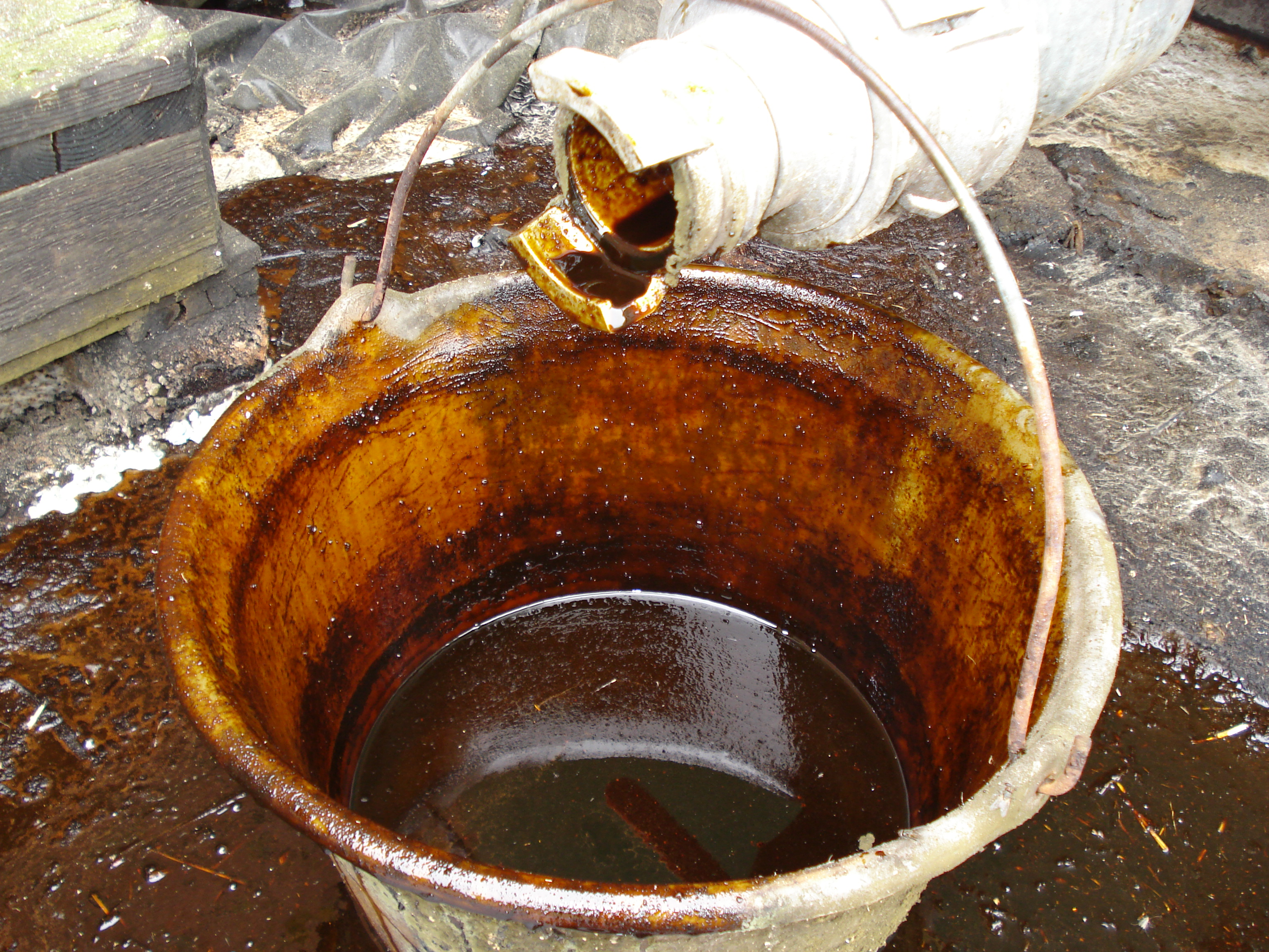 Molasses on a dairy farm in France (probably used as "molassed sugar beet feed", as an additive to cattle fodder)